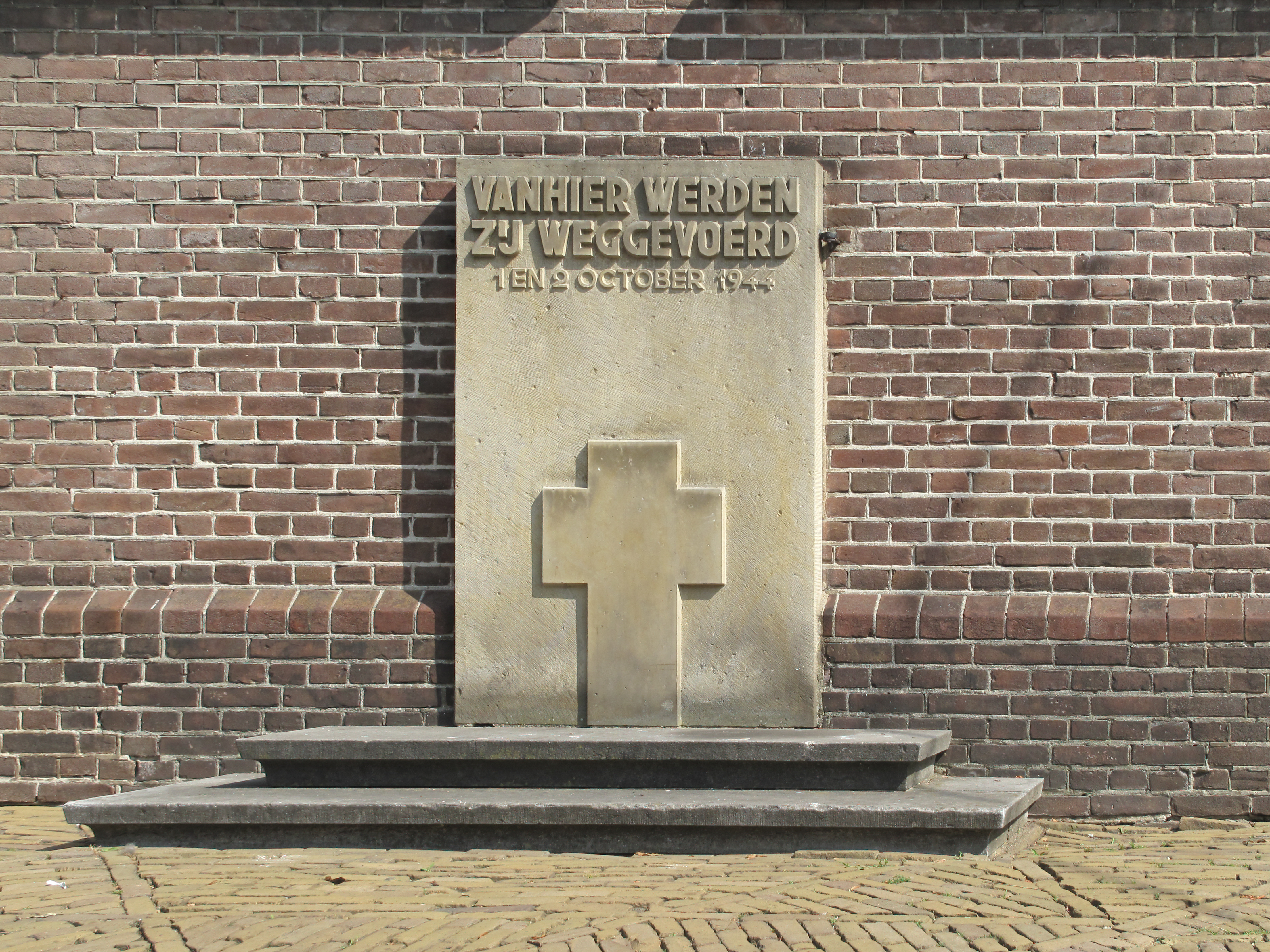 Putten, war memorial near church (de Oude Kerk)